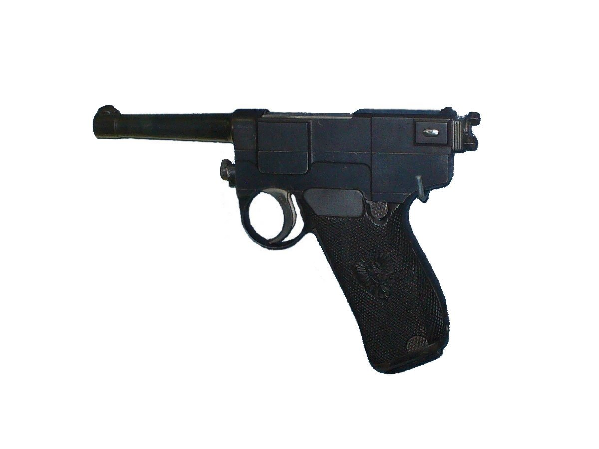 Glisenti Modello 1910, Italian service pistol